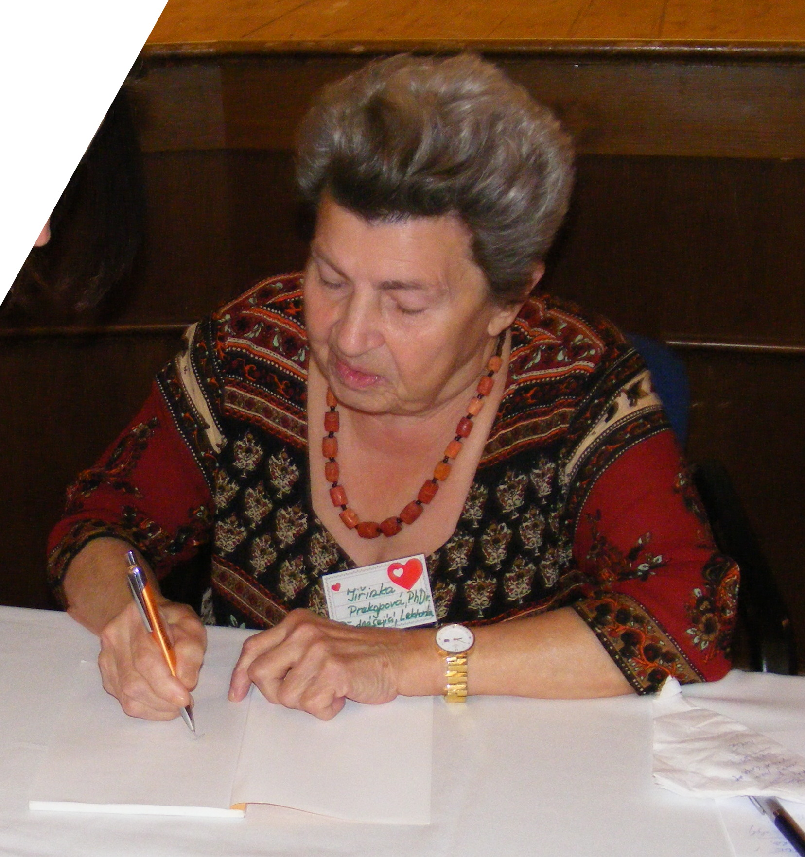 Jirina Prokopova signs her book on workshop